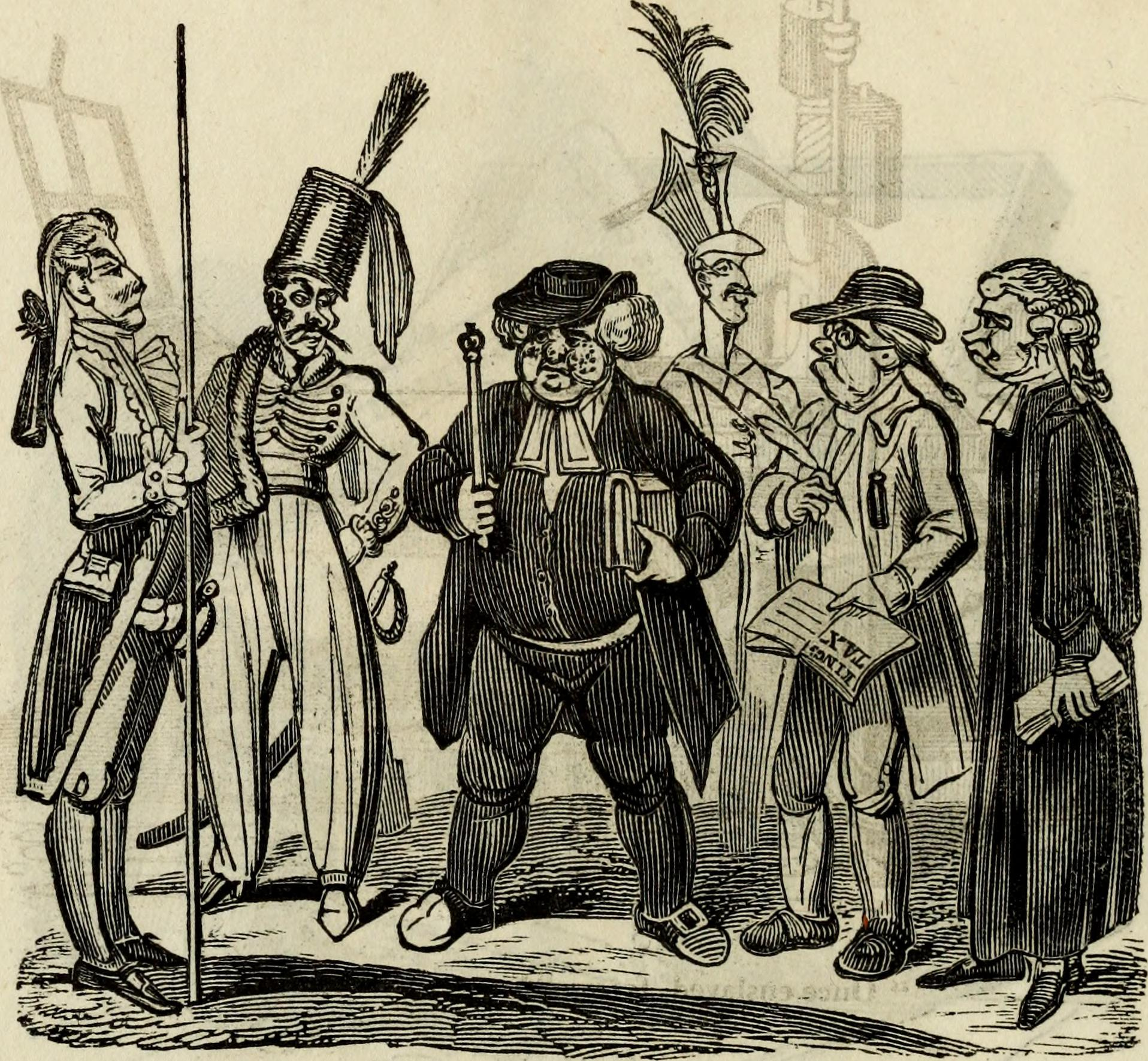 Title: The political house that Jack built Year: 1819 (1810s) Authors: Hone, William, 1780-1842 Cruikshank, George, 1792-1878, ill Subjects: Stoddart, John, Sir,d1773-1856 Publisher: London : Printed by and for William Hone Text Appearing Before Image: .. ** Not to understand a treasures worth,Till time has stolen away the slighted good.Is cause of half the poverty we feel.And makes the world the wilderness it is. THIS IS THE WEALTH that layIn the House that Jack built. B iiii 61 ^lm Text Appearing After Image: ———— ** A race obscene, Spawnd in the muddy beds of Nile, came forth, Polluting Egypt: gardens, fields, and plains^ Were coverd with the pest; The croaking nuisance lurkd in every nook ; Nor palaces, nor even chambers, scapd ; And the land stank—so nurnrous was the fry. THESE ARE THE VERMIN That Plunder the Wealth,That lay in the House,That Jatk bnill.